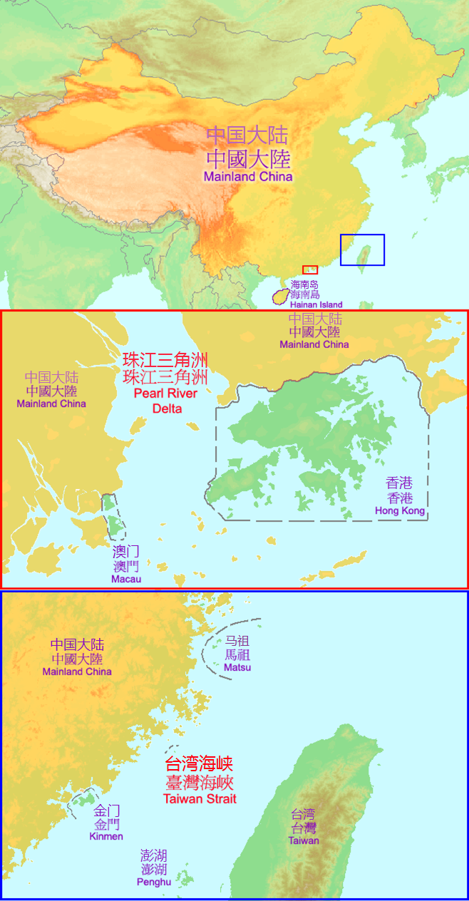 The highlighted region in the map is "mainland China". The image was made by Alan Mak in February, 2006.